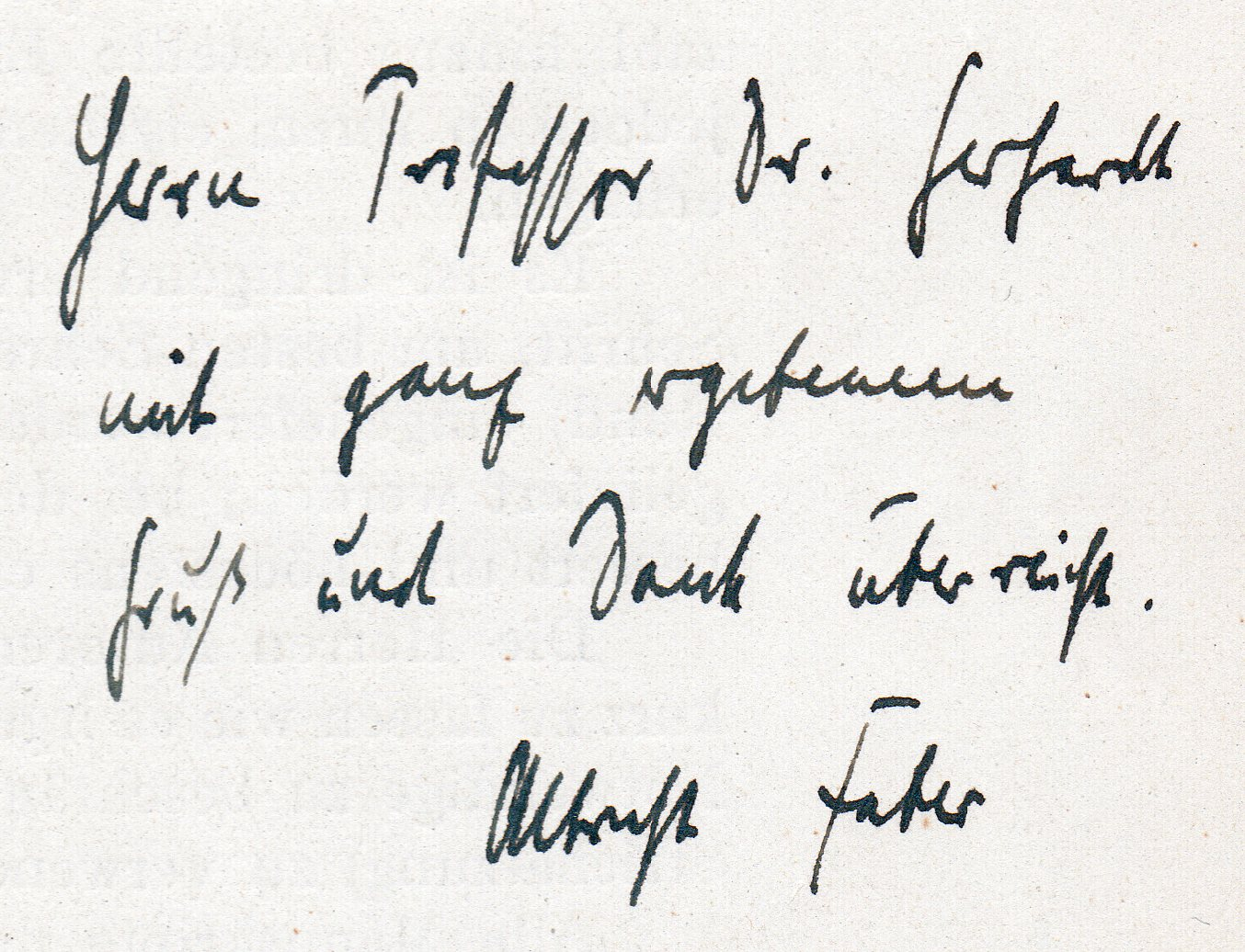 Dedication on a reprint of a scientific paper of Albrecht Faber (with signature).